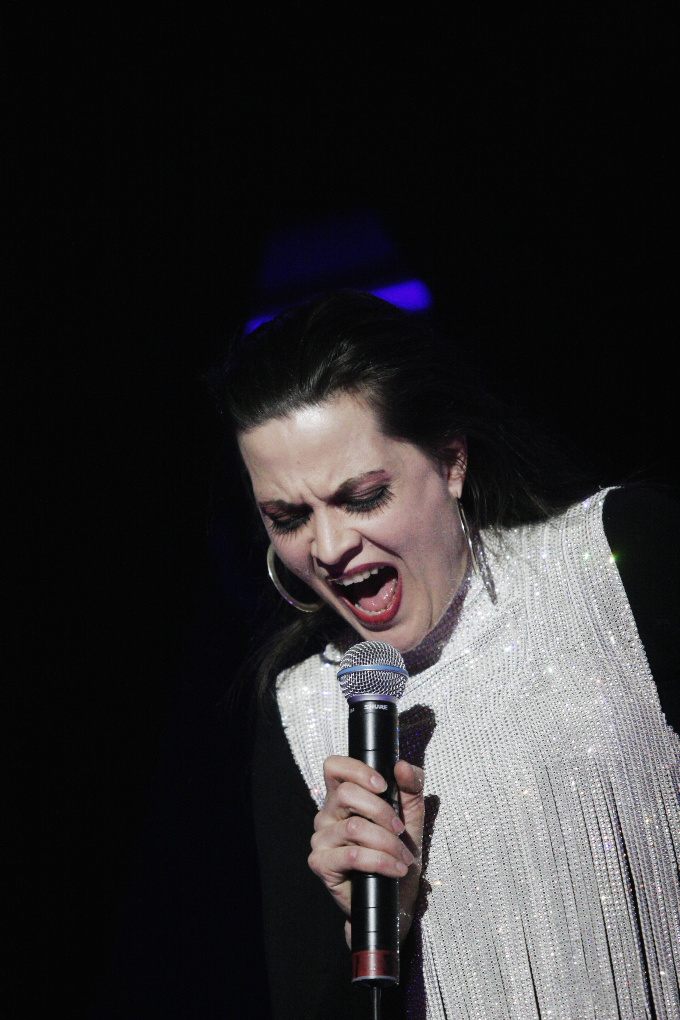 Maya at Berns with Orkestra Chesty Morgan